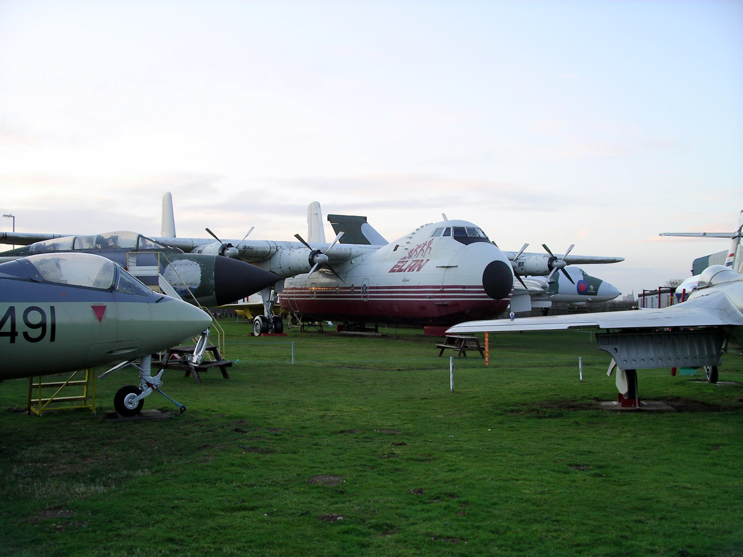 Armstrong Whitworth A.W.650 Argosy (series 101), serial number G-APRL, taken by me on 6 March 2007. The transport aircraft is an exhibit at the Midland Air Museum, near Baginton, Warwickshire, England.